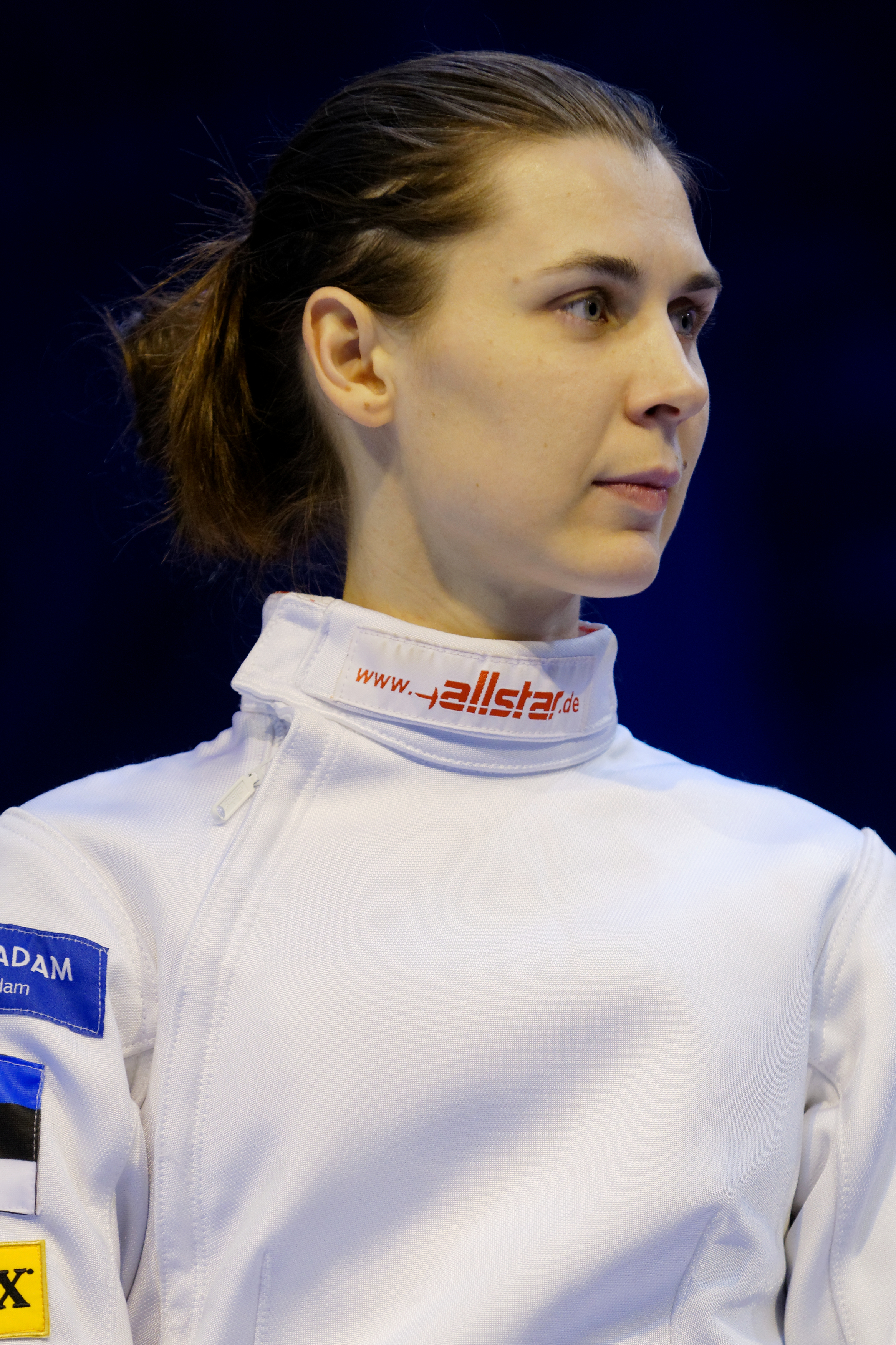 Irina Embrich at the Challenge international de Saint-Maur 2013, women's épée World Cup tournament.